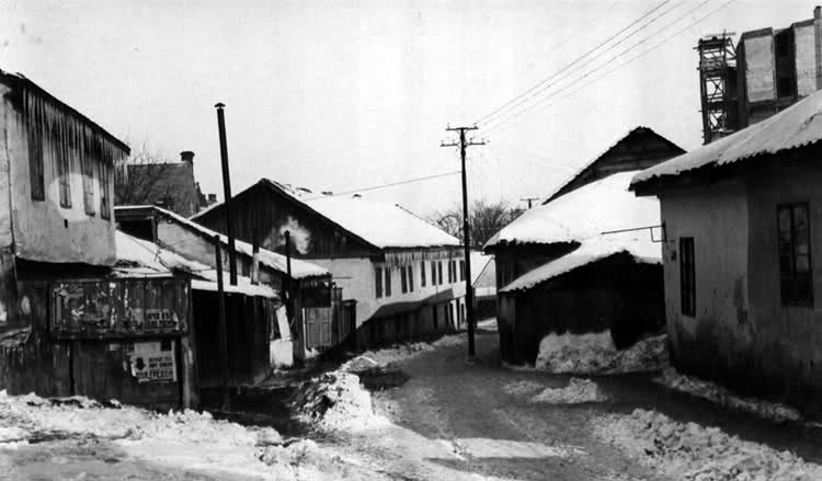 Old Belgrade Streets